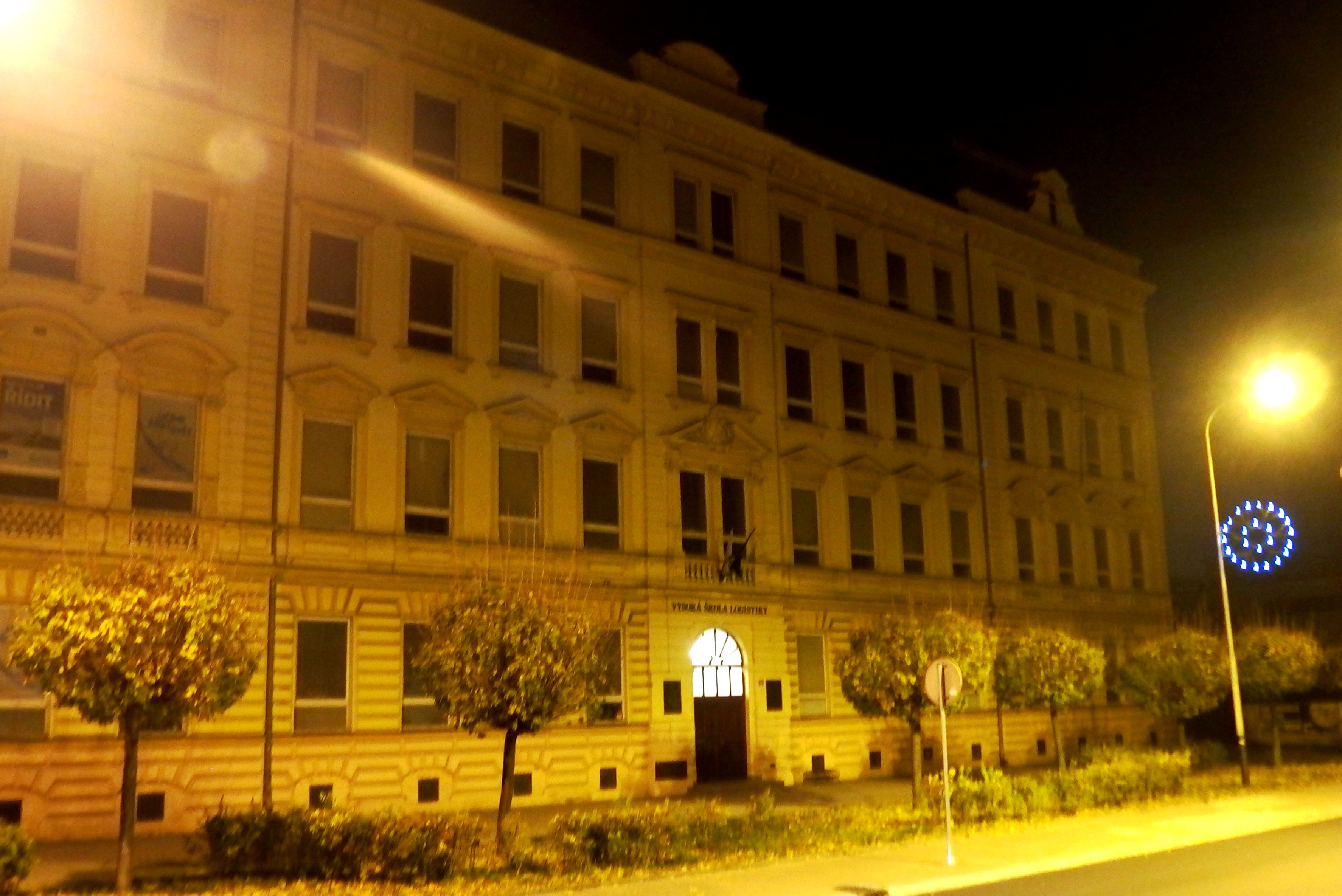 Přerov, Czech Republic.